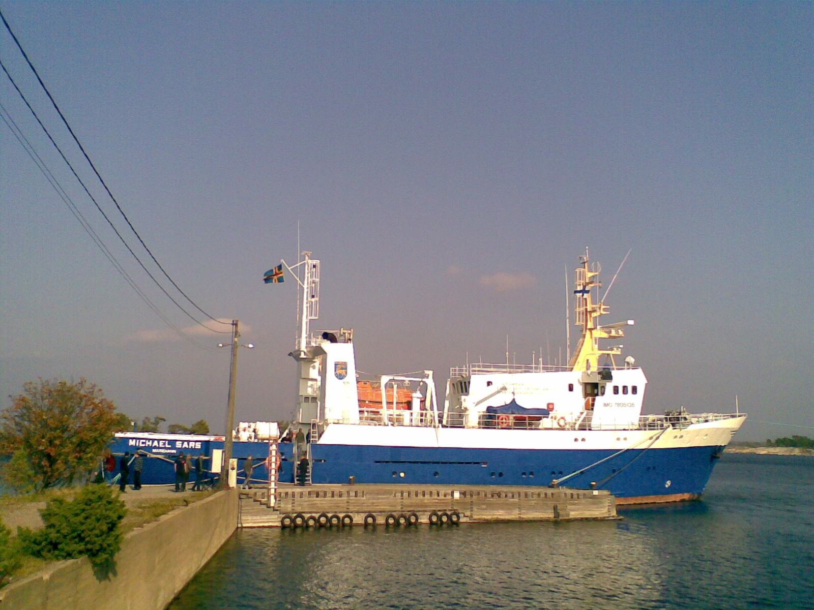 The ship Michael Sars at harbor in the Finnish arcipelago